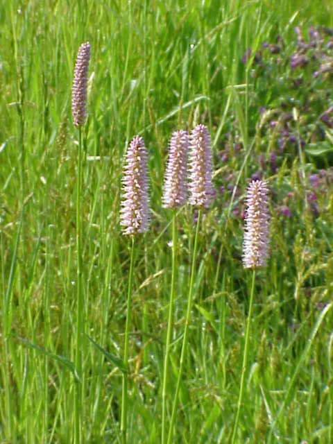 Species: Polygonum bistorta Family: Polygonaceae Image No. 2